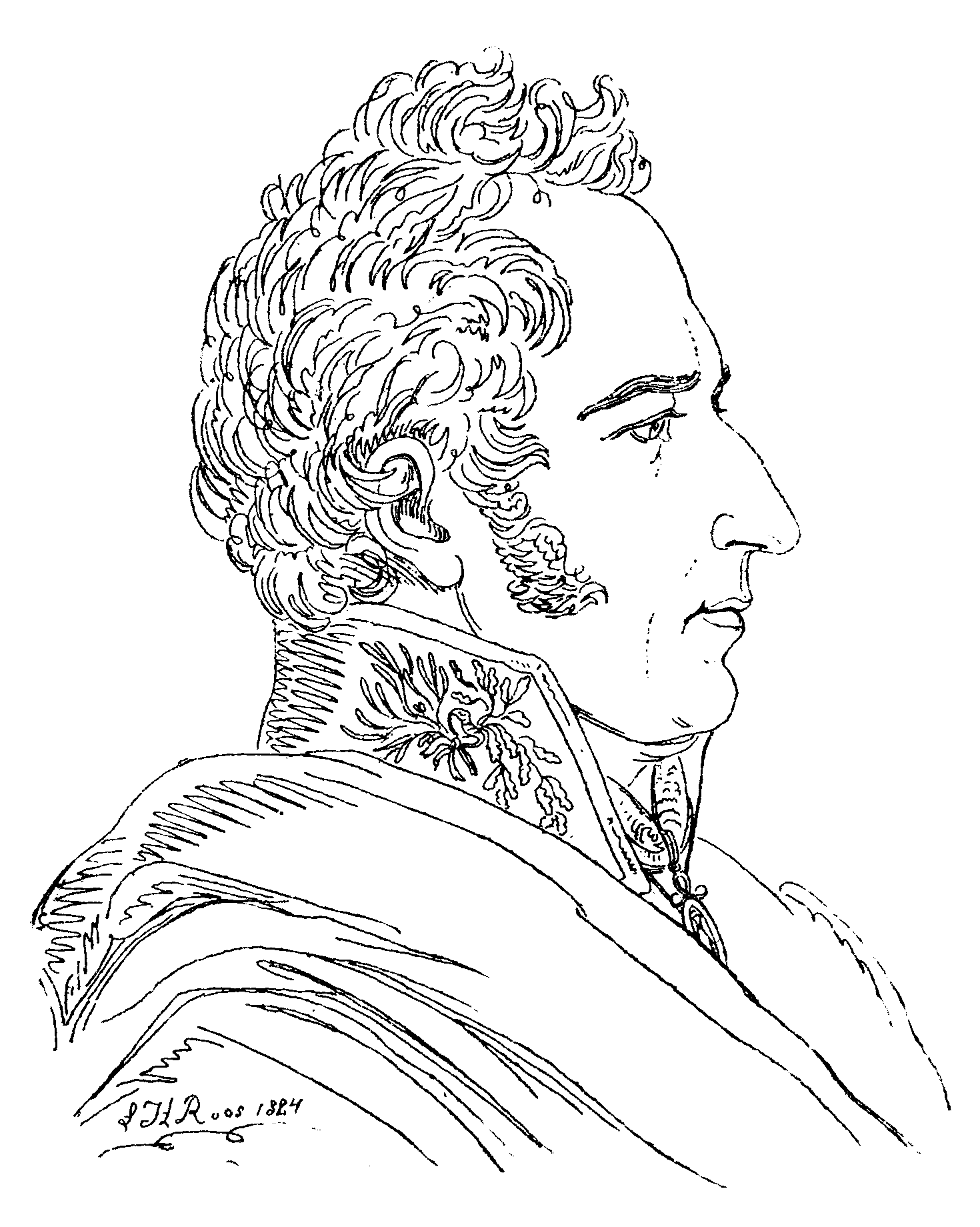 Fredric Westin (1782-1862)